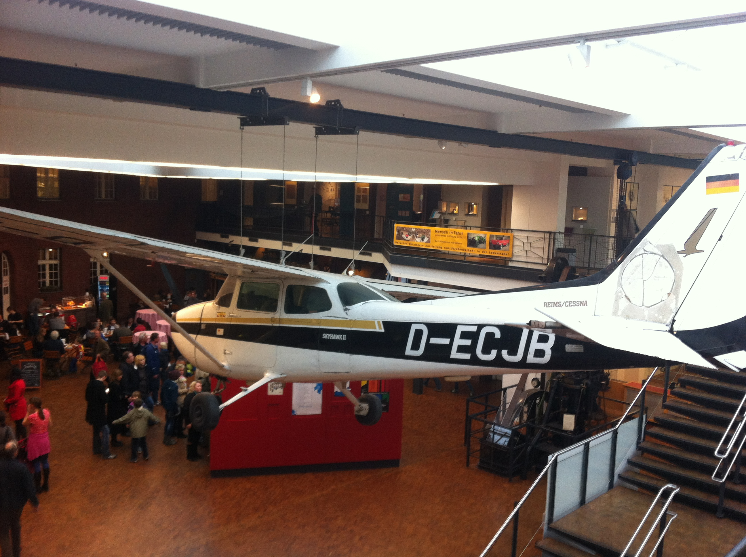 Matthias Rust's Piper